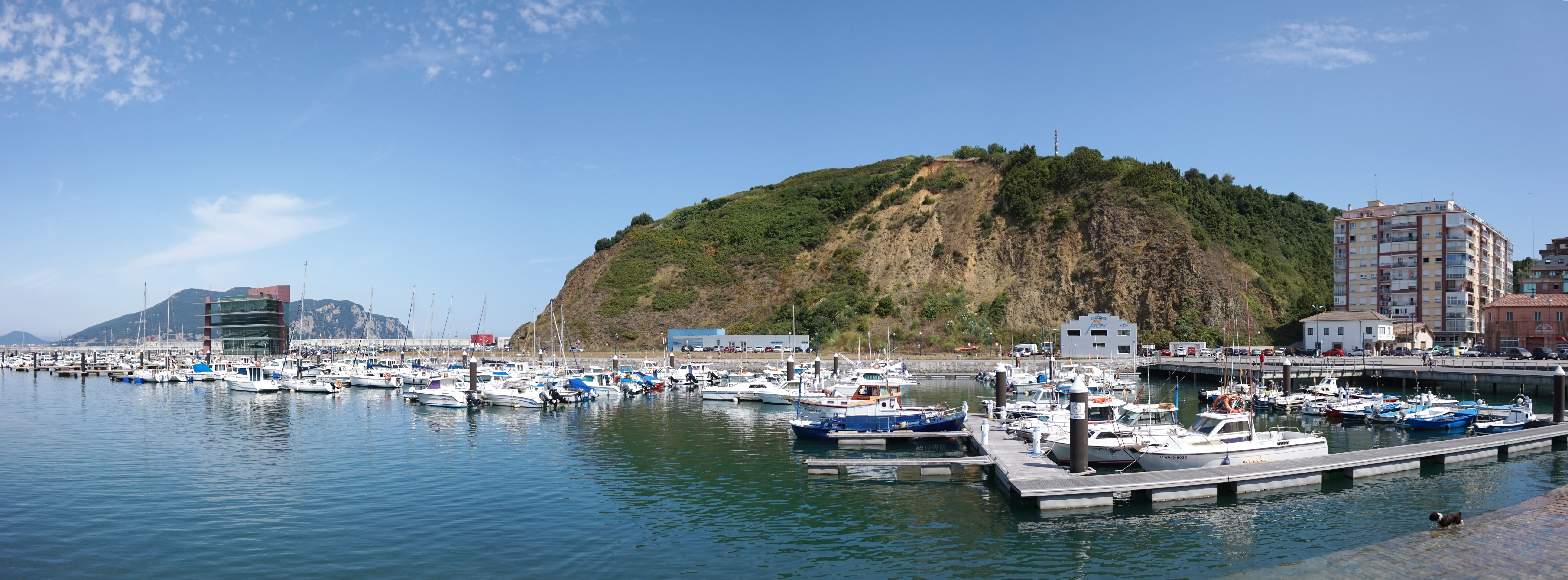 Laredo Harbour, Spain. This photograph was taken with a Sony Alpha a5000.